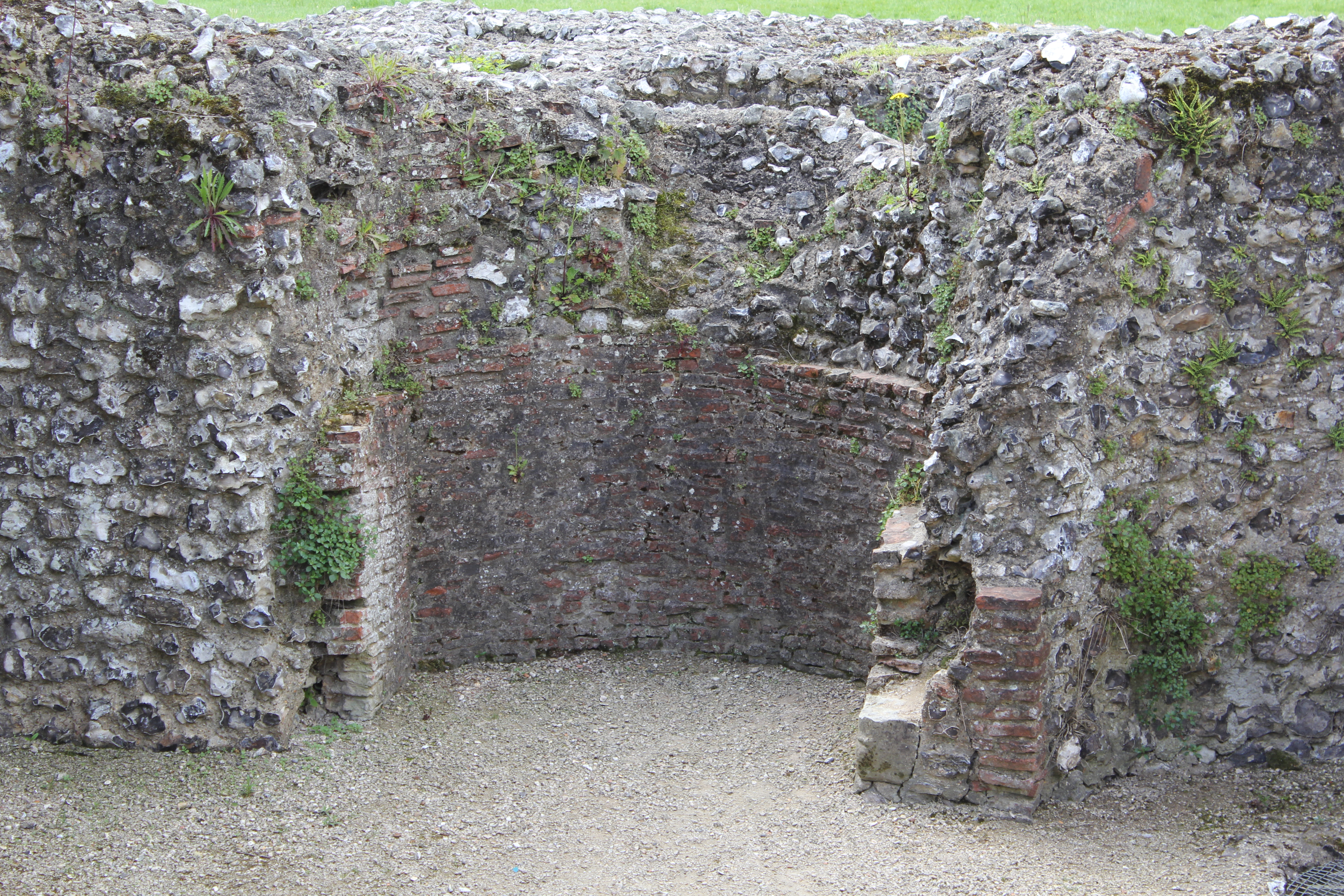 The fireplace in the solar undercroft reused Roman tile in its construction